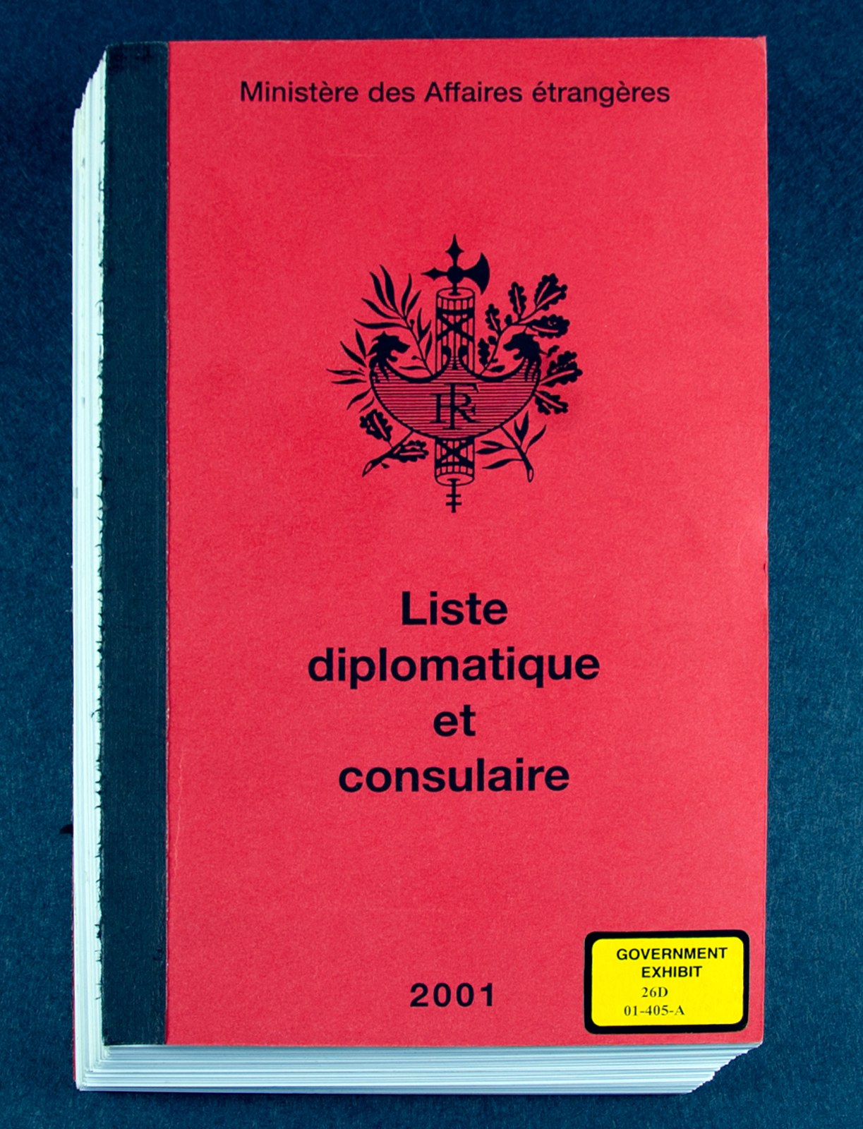 Sixteen years ago this month, former Air Force intelligence officer Brian P. Regan was arrested by FBI agents at Dulles International Airport for stealing classified materials from the National Reconnaissance Office. Regan was about to board a plane to Switzerland with encrypted notes and the contact information for foreign diplomatic offices in his pockets. Regan had buried a stash of stolen materials – to include documents, video tapes, CDs, DVDs, and photographs - underground across the D.C. metropolitan area in Maryland and Virginia state parks. He recorded the locations where he buried the items on a note, which he had stuffed in a toothbrush holder and subsequently buried under the I-94 exit sign near Fredericksburg, Virginia. Ultimately, after Regan’s arrest, he cooperated and led investigators to the materials he had stolen and buried. In all, Regan had stolen photos of Iraqi missile sites and encoded, classified tactical information. The FBI later learned that Regan intended to sell the information he had stolen to China, Iraq, and Libya for $13 million. In February 2003, Regan was convicted following a trial by jury, and, due to his cooperation with law enforcement, received a life sentence for attempted espionage and unlawful gathering of defense information. The FBI’s August #ArtifactoftheMonth is a copy of a booklet that lists contact information for foreign consulates that Regan used to make selections of where to try and sell the classified information he had stolen. The booklet depicted was used as an exhibit in Regan’s trial. For more information on the Brian P. Regan espionage case: Interested in coming to see other FBI artifacts?